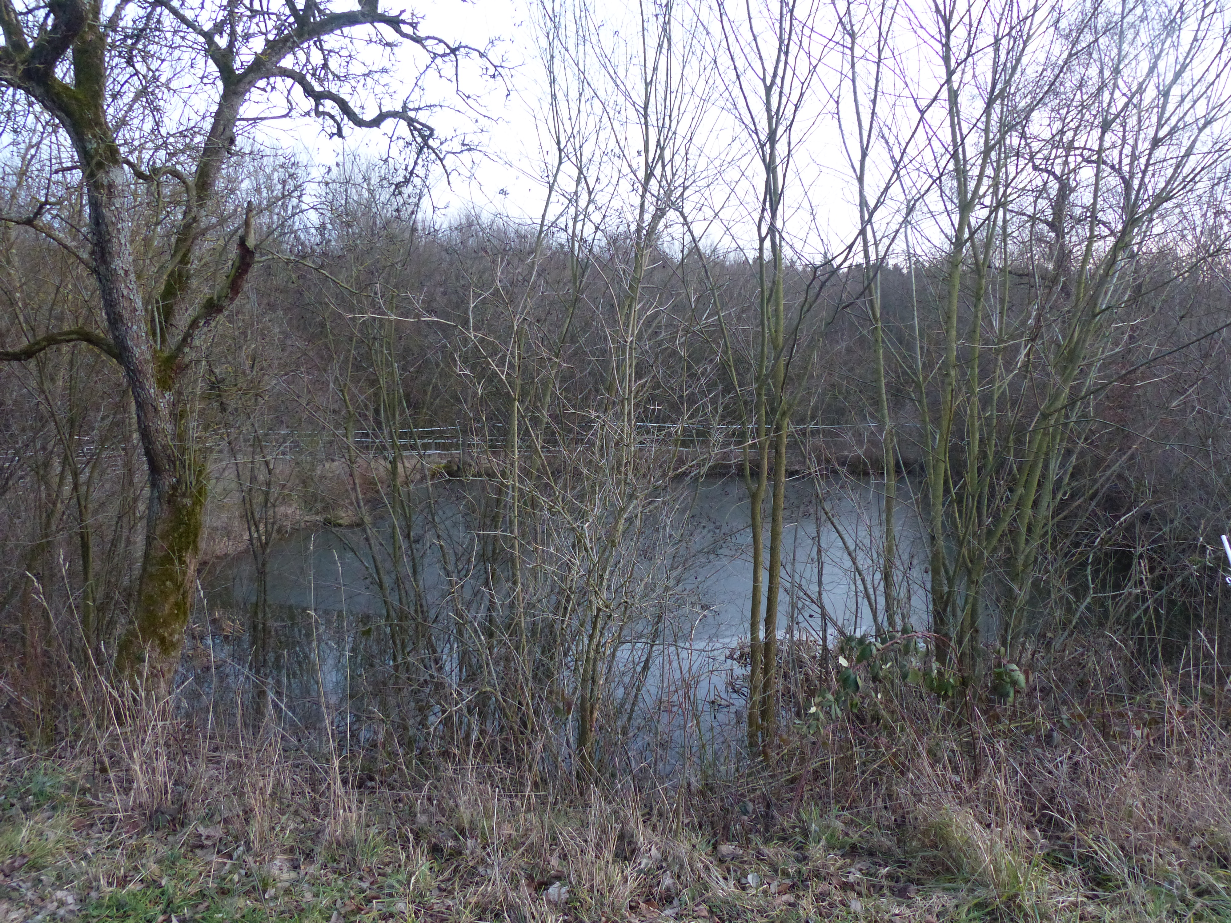 A sky pond near the solitude Hebendorf, a part of the municipality of Rentweinsdorf